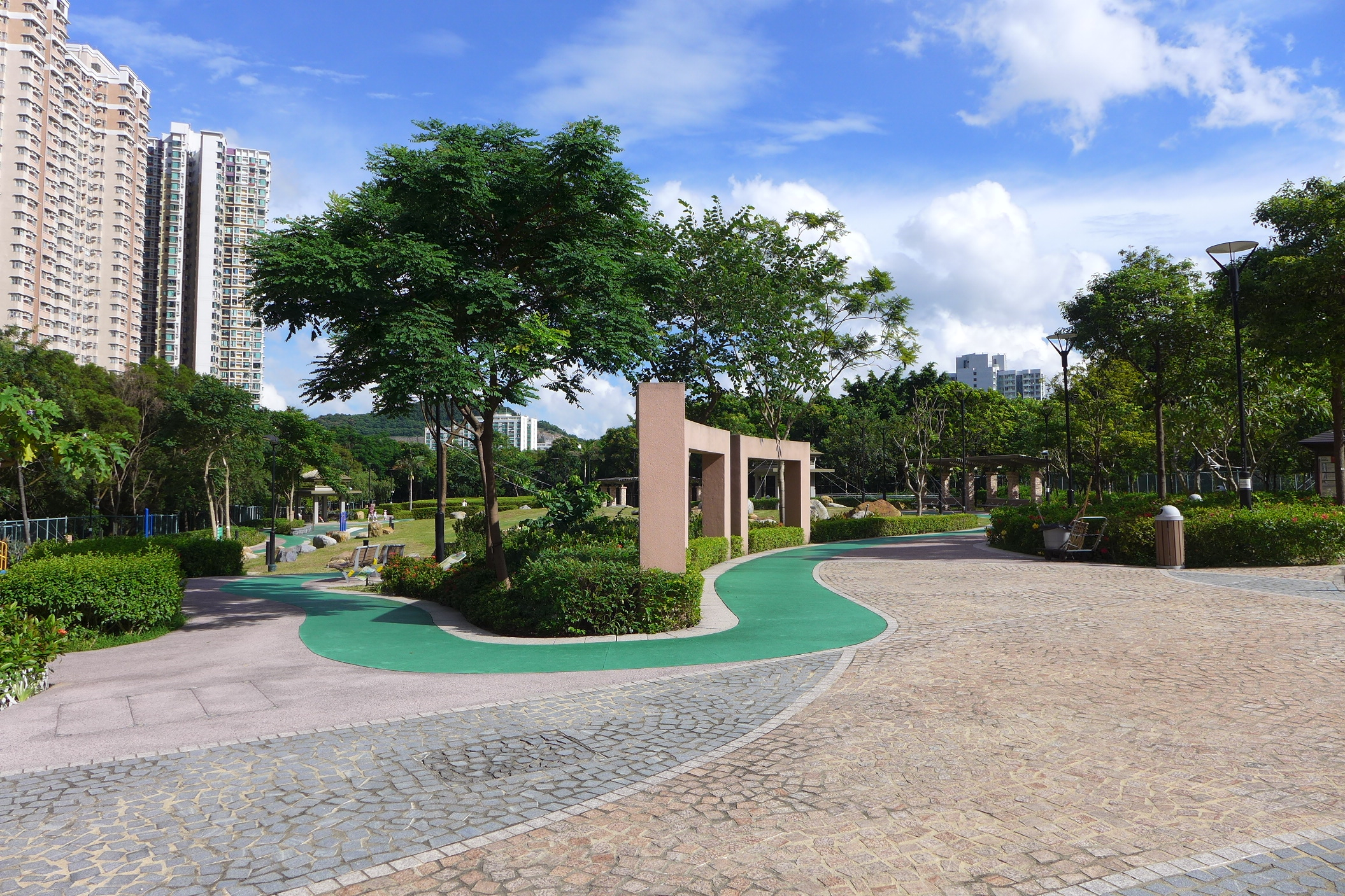 Ngau Chi Wan Park Upper Platform